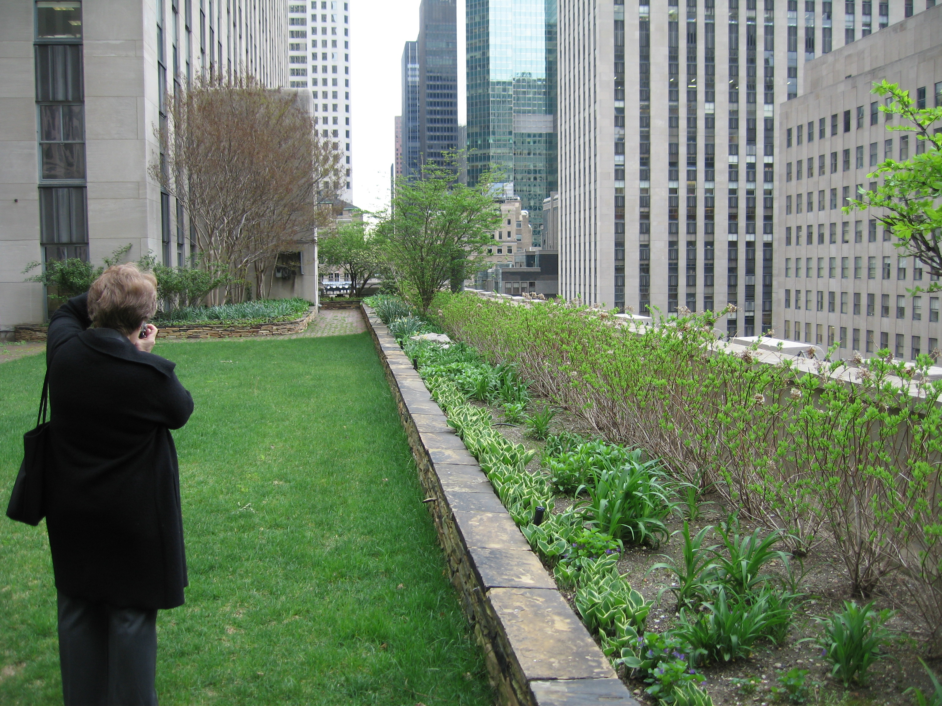 Rockefeller Center English Roof Gardens - 2007 (remains)